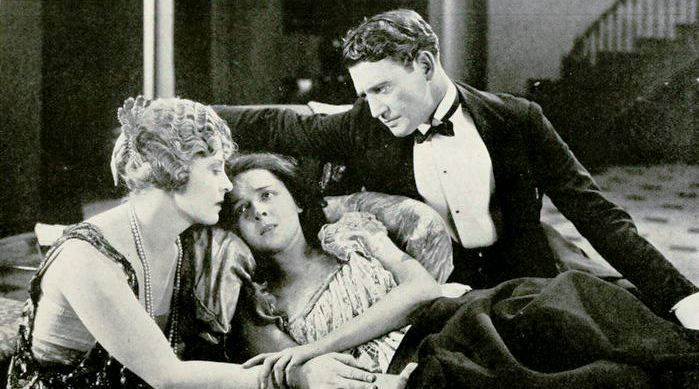 Still from the American romantic drama film The Wall Flower (1922) with Gertrude Astor, Colleen Moore, and Richard Dix, on page 63 of William Lord Wright, Photoplay Writing (1922).